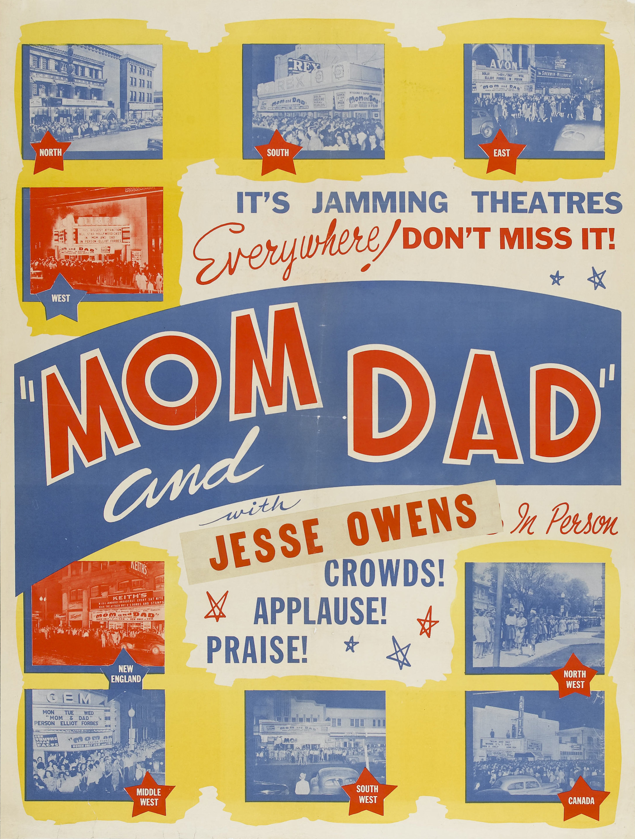 Undated poster promoting a screening of the 1945 exploitation film Mom and Dad advertising an in-person appearance by athlete Jesse Owens. While most screenings of Mom and Dad were accompanied by a lecture from a person playing the character of the "Fearless Hygiene Commentator" Elliot Forbes, Owens substituted at some screenings.